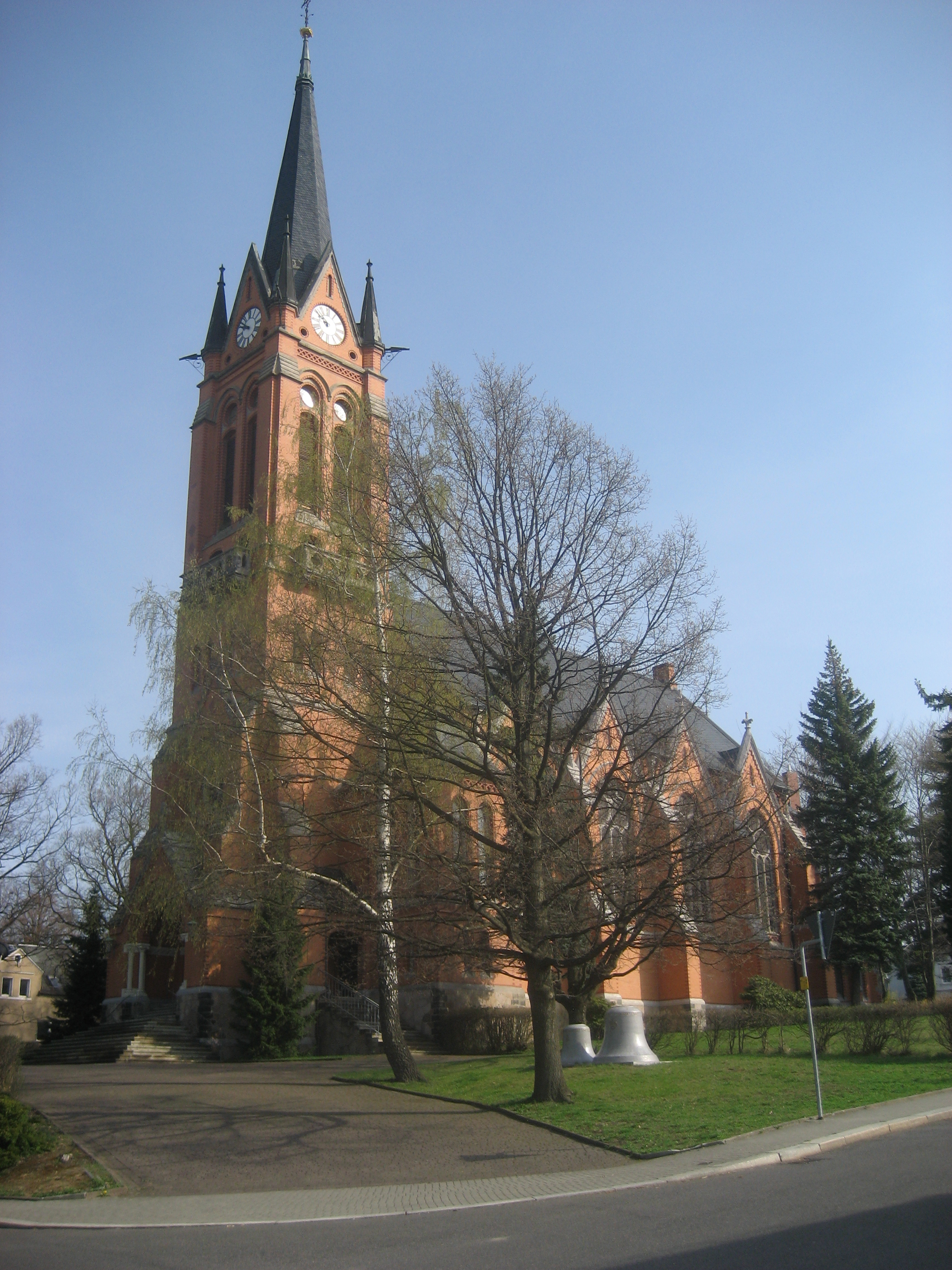 Church Oberfrohna (Limbach-Oberfrohna)